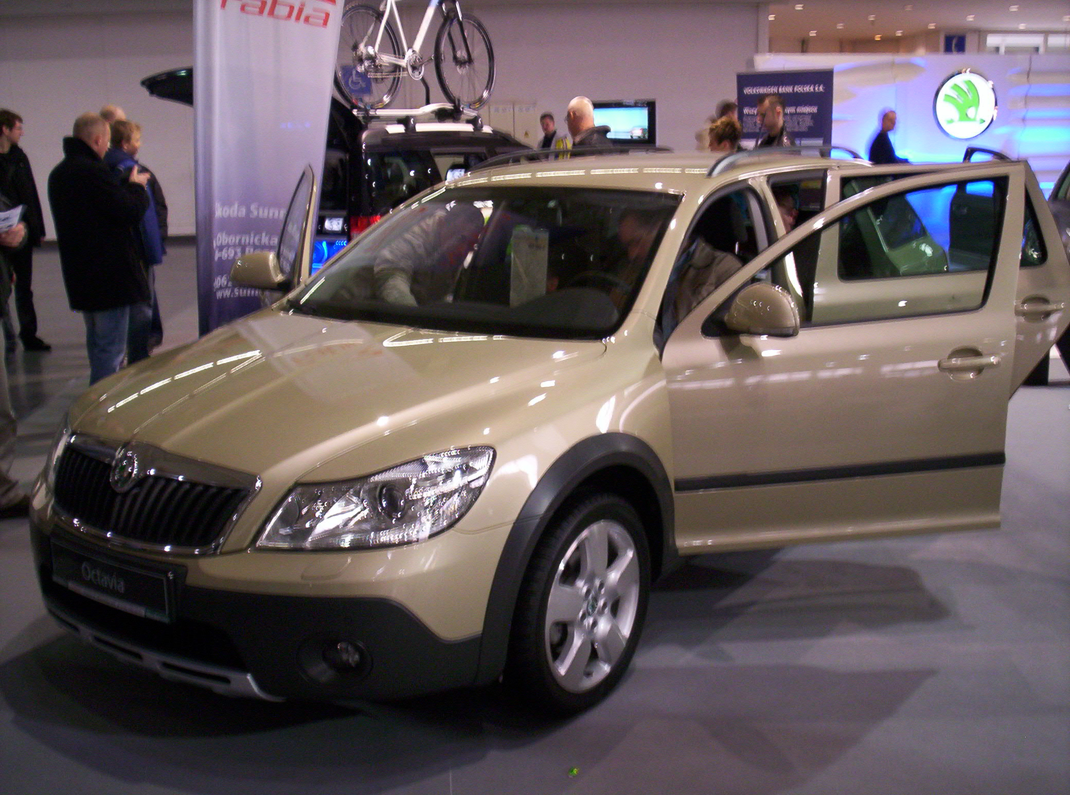 Škoda Octavia Scout after facelift at Motor Show 2011 in Poznań